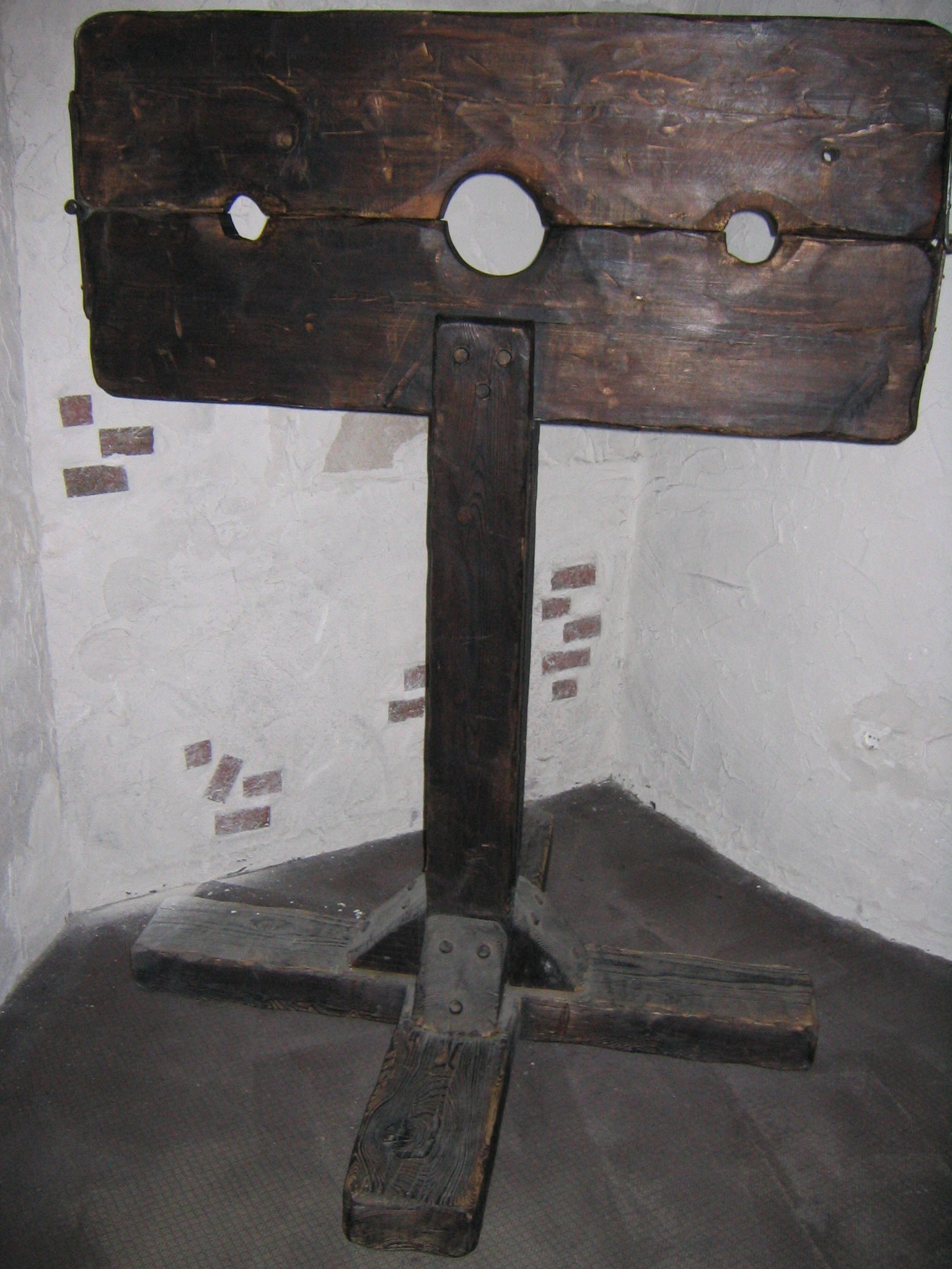 Pranger at the torture museum in Freiburg im Breisgau